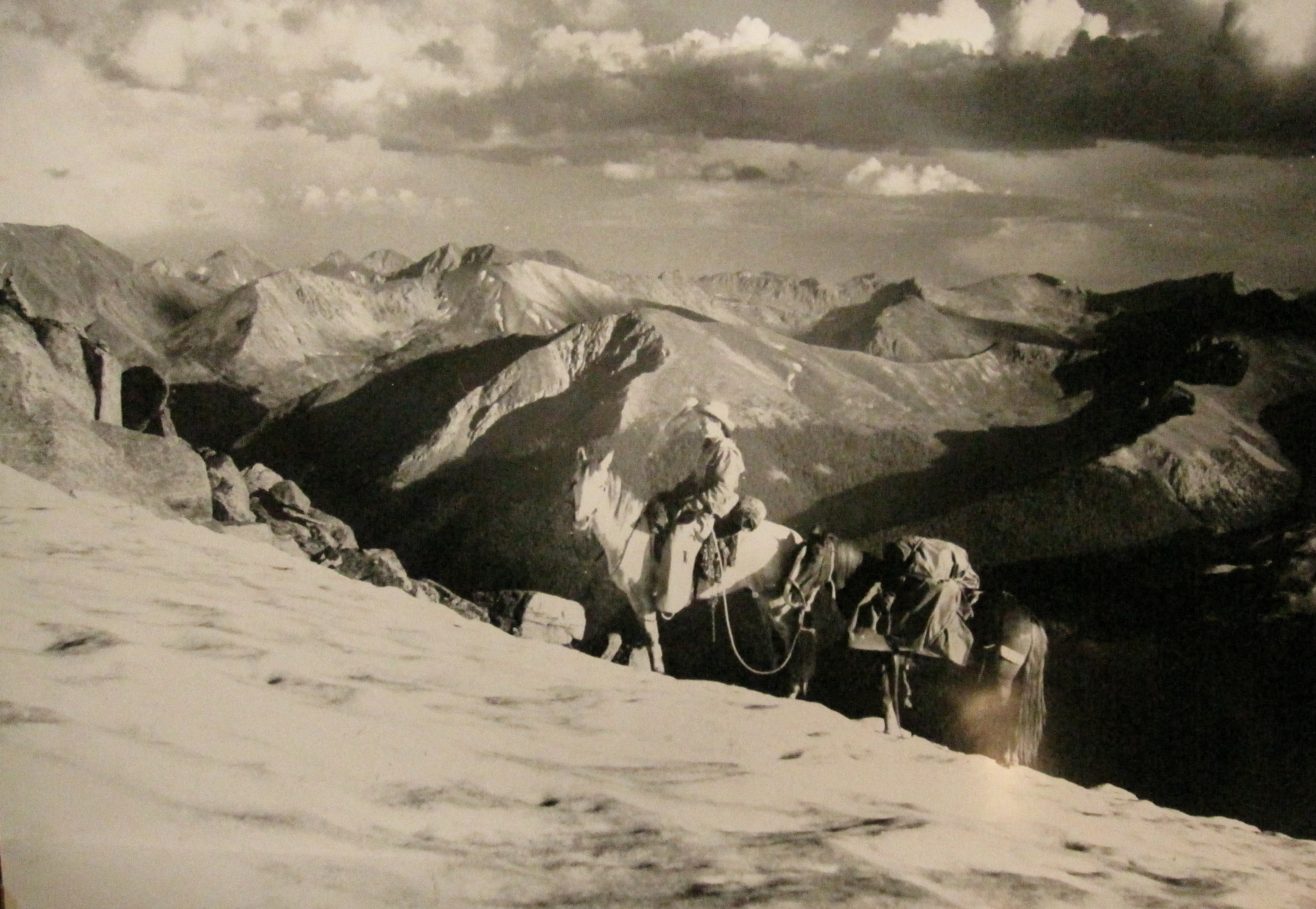 Priscilla and Günther Paetsch on their Honeymoon Pack Trip. 2 months on the top of the Continental Divide in Colorado on horseback, 1959